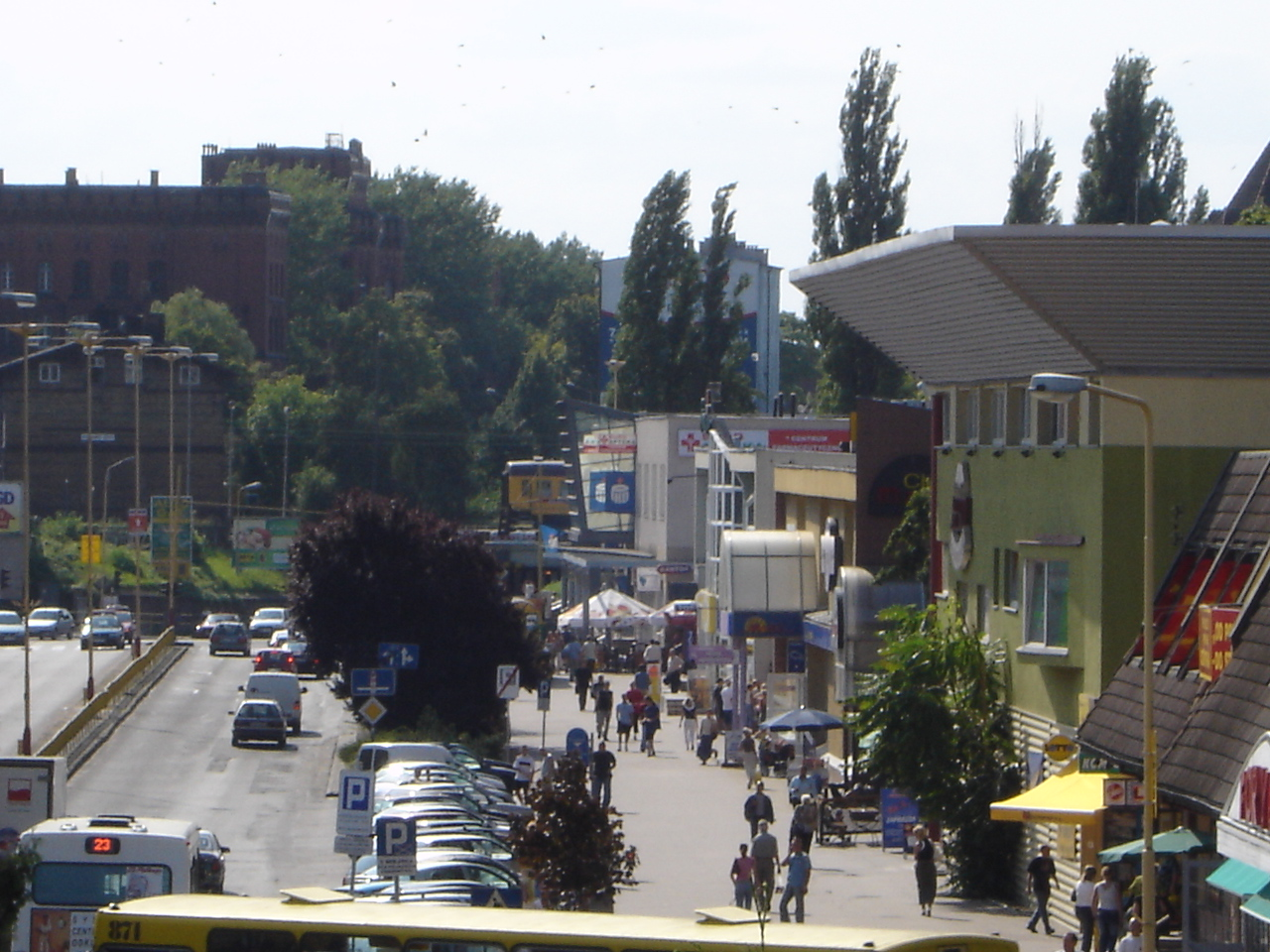 Foto by Politykstargard